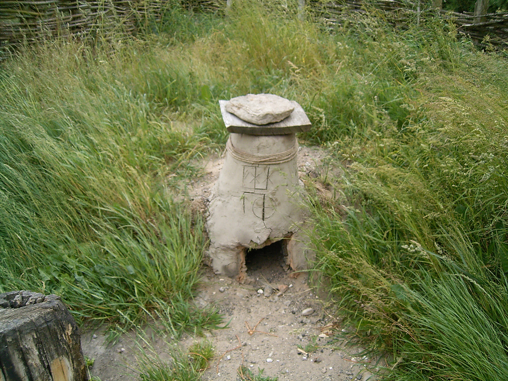 Vikingecenter Fyrkat in Hobro: a bloomery